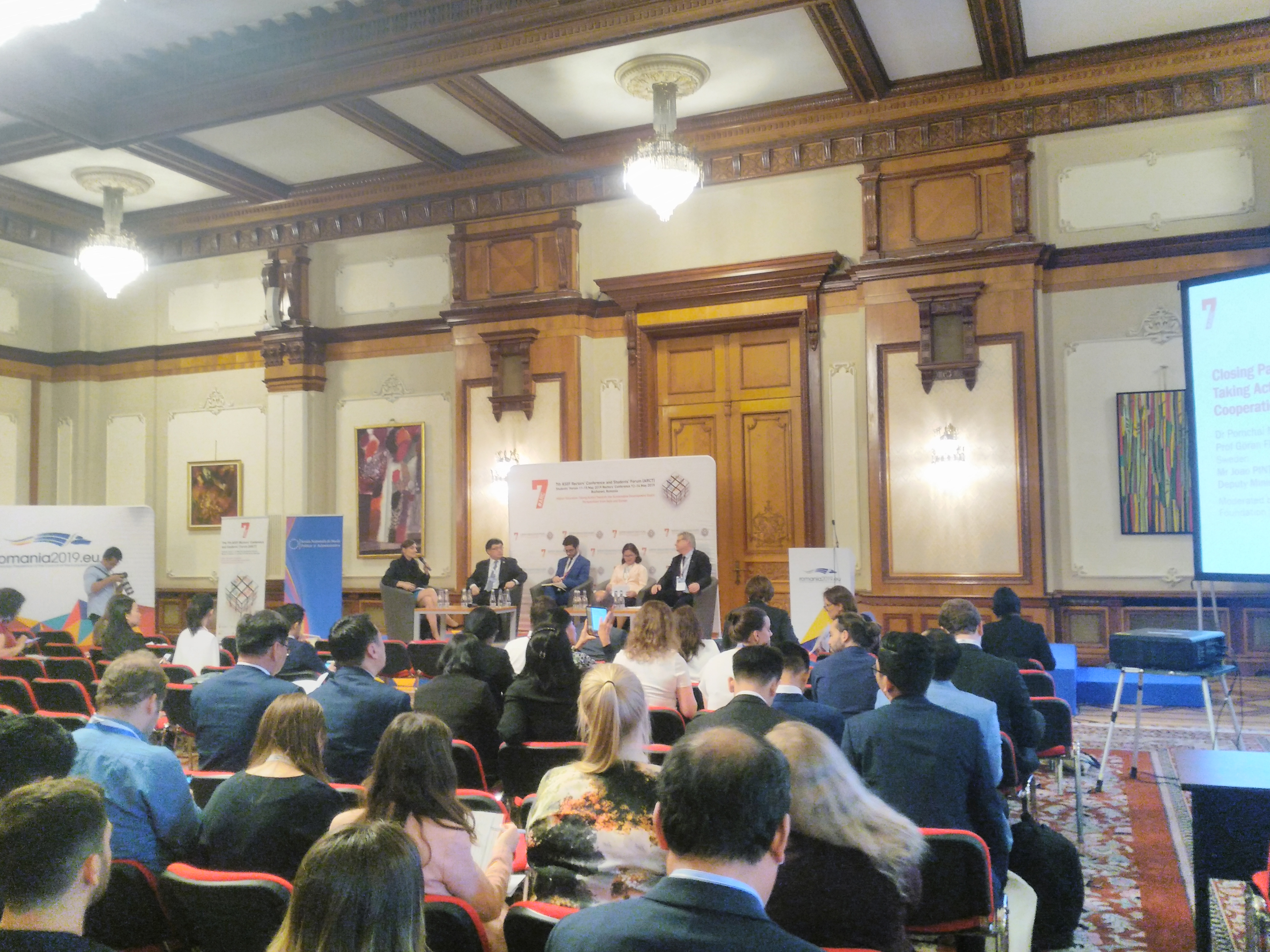 7th ASEF Rectors' Conference and Student Meeting in Bucharest, Romania in 2019.